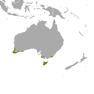 Southern Brown Bandicoot (Isoodon obesulus) range